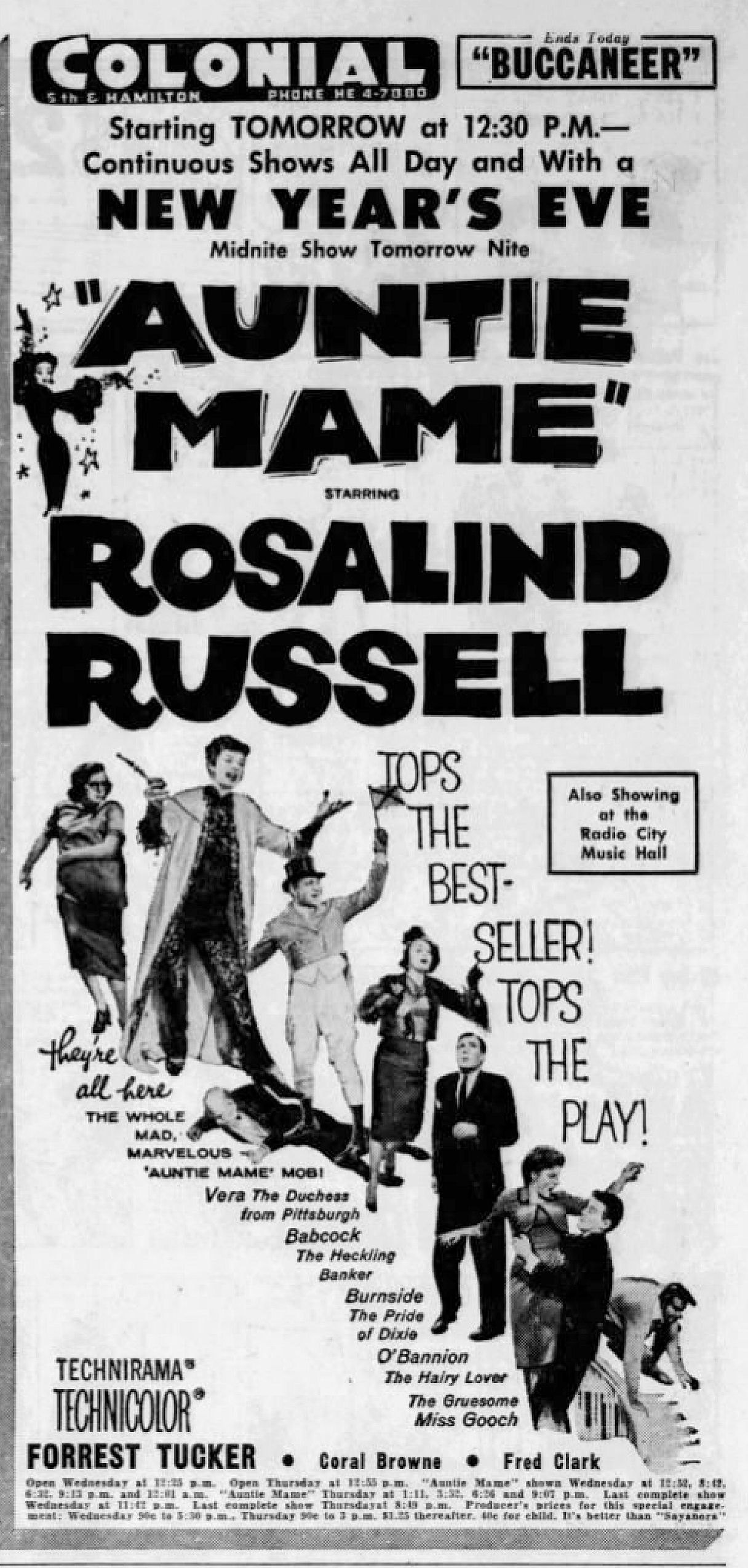 Colonial Theater advertisement for the American comedy film Auntie Mame (1958) - 30 Dec. 1958 Morning Call, Allentown PA